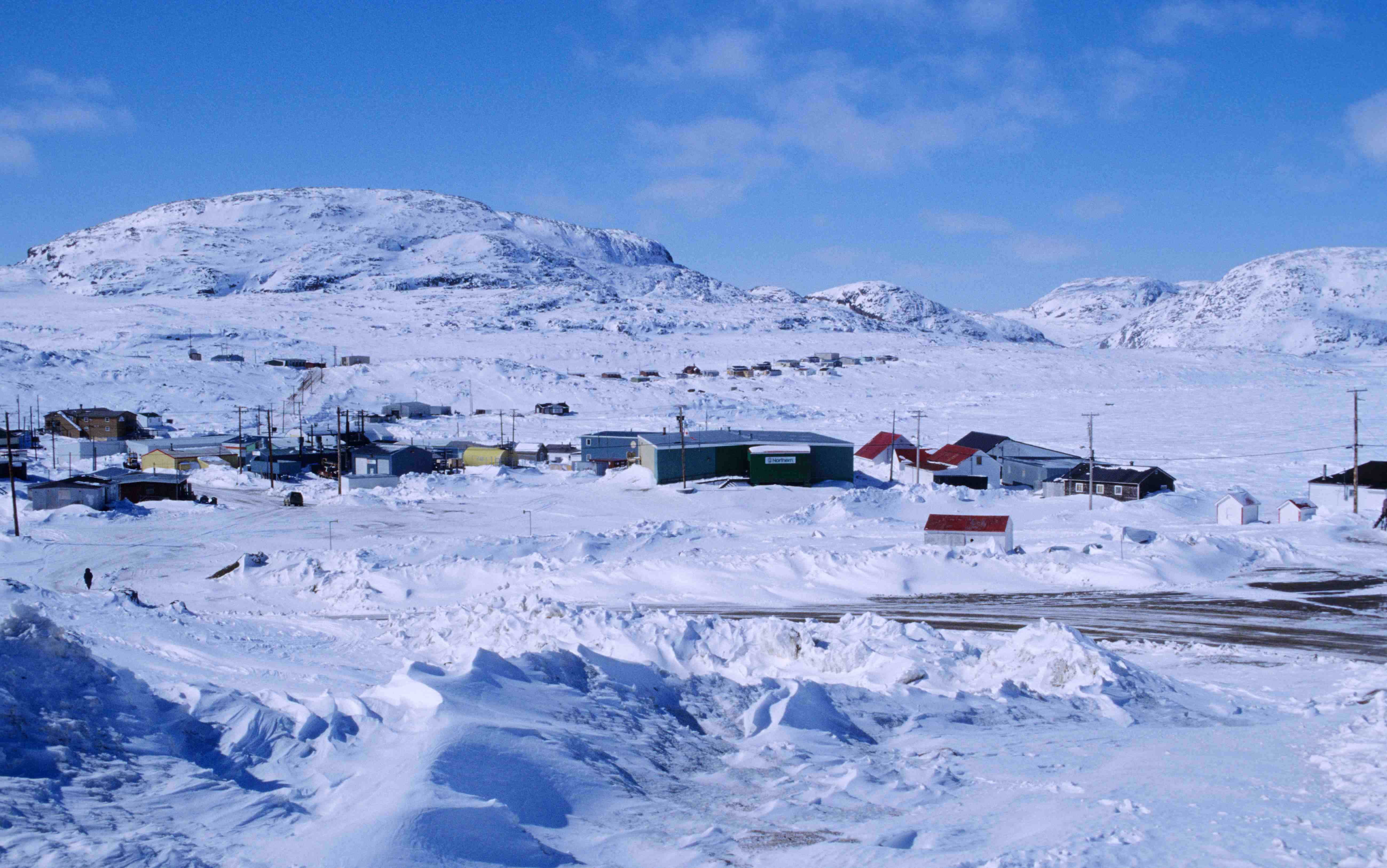 Early springtime in Cape Dorset (background: Kinngait)